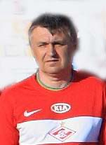 Fyodor Fyodorovich Cherenkov (Russian: Фёдор Фёдорович Черенко́в) (born July 25, 1959 in Moscow) is a Soviet and Russian football midfielder who played for Spartak Moscow (1977–90 and 1991–94) and Red Star Football Club (1990–91).